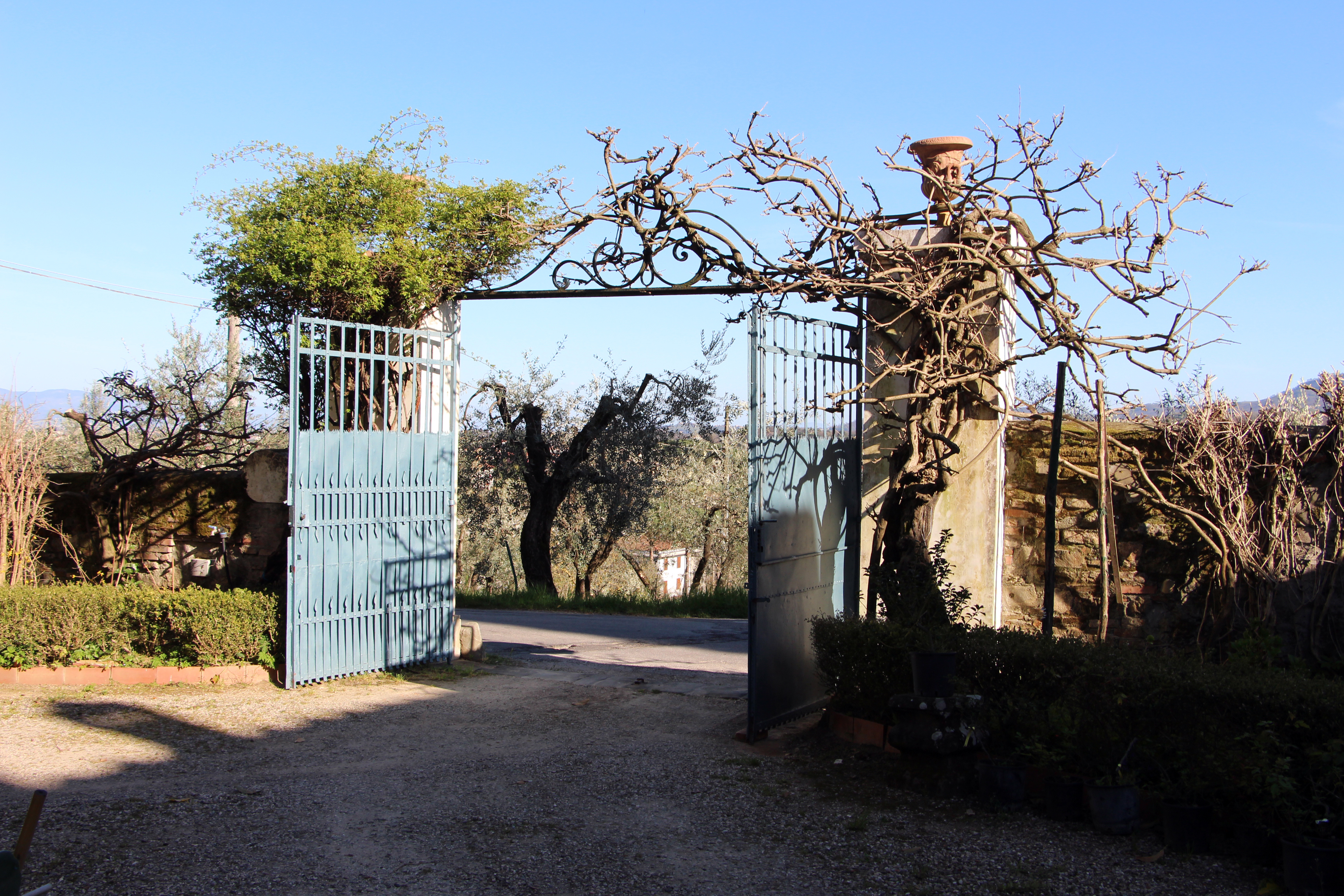 Cantagrillo